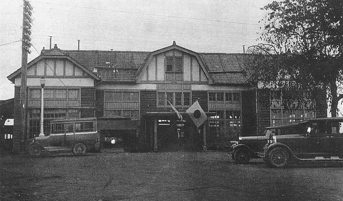 Akita Omagari Station in Taisho era